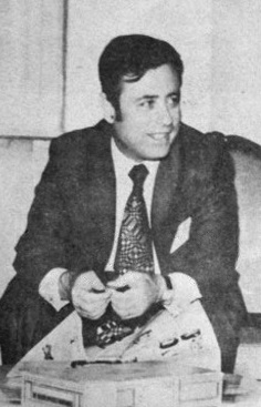 Syrian Foreign Minister Abdul Halim Khaddam in 1975